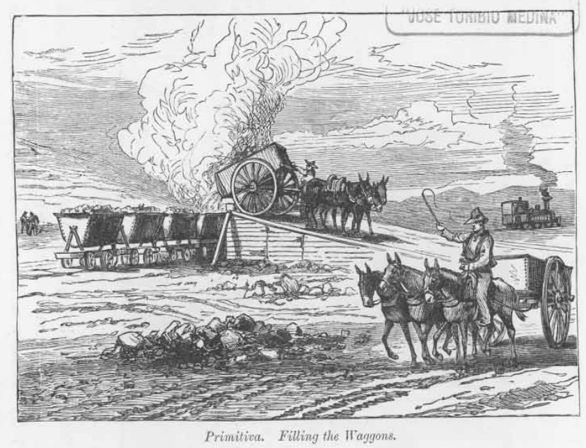 A Visit to Chile and the Nitrate Fields of Tarapaca, 1890